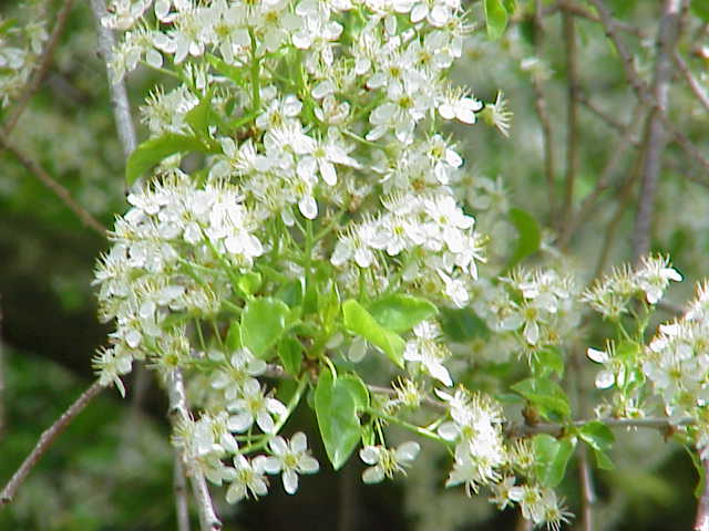 Species: Prunus mahaleb Family: Rosaceae Image No. 1